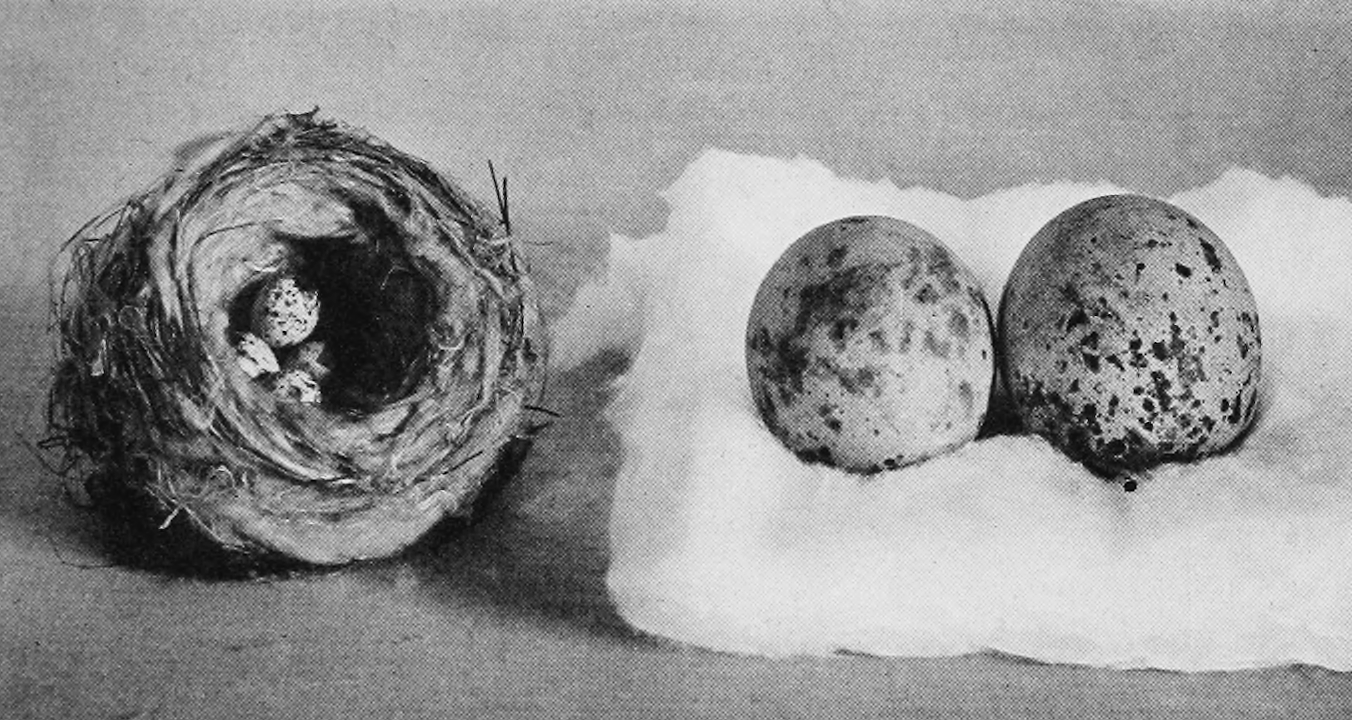 Eggs collected by Henry David Thoreau, in the Natural History Museum, Boston. Caption: "Eggs. Those in the nest are of Yellow Warbler, the other two of Red-tailed Hawk. Found and presented to the Society by Henry D. Thoreau."